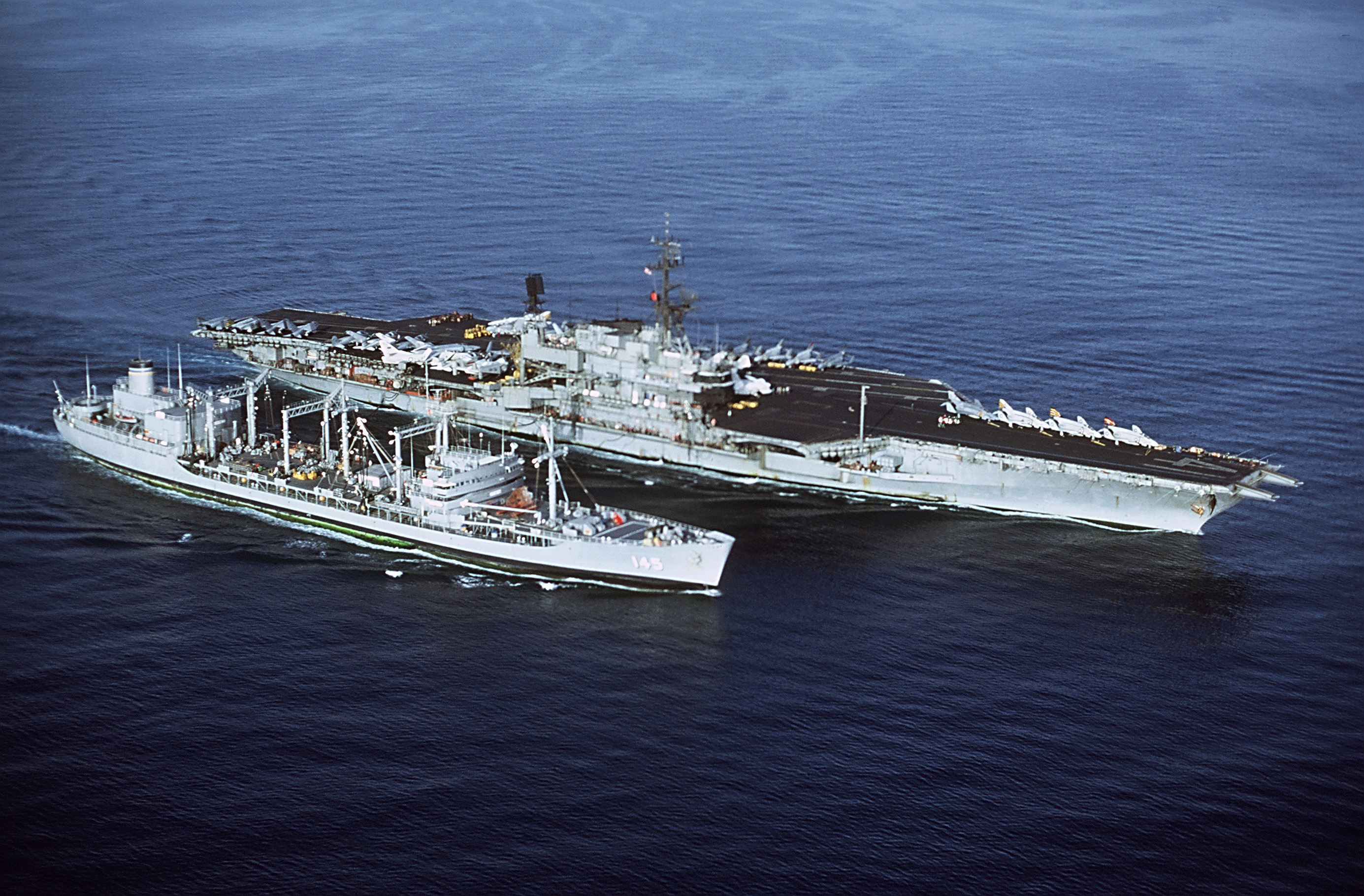 The U.S. MIlitary Sealift Command oiler USNS Hassayampa (T-AO-145) refueling the U.S. Navy aircraft carrier USS Midway (CV-41), in 1984.